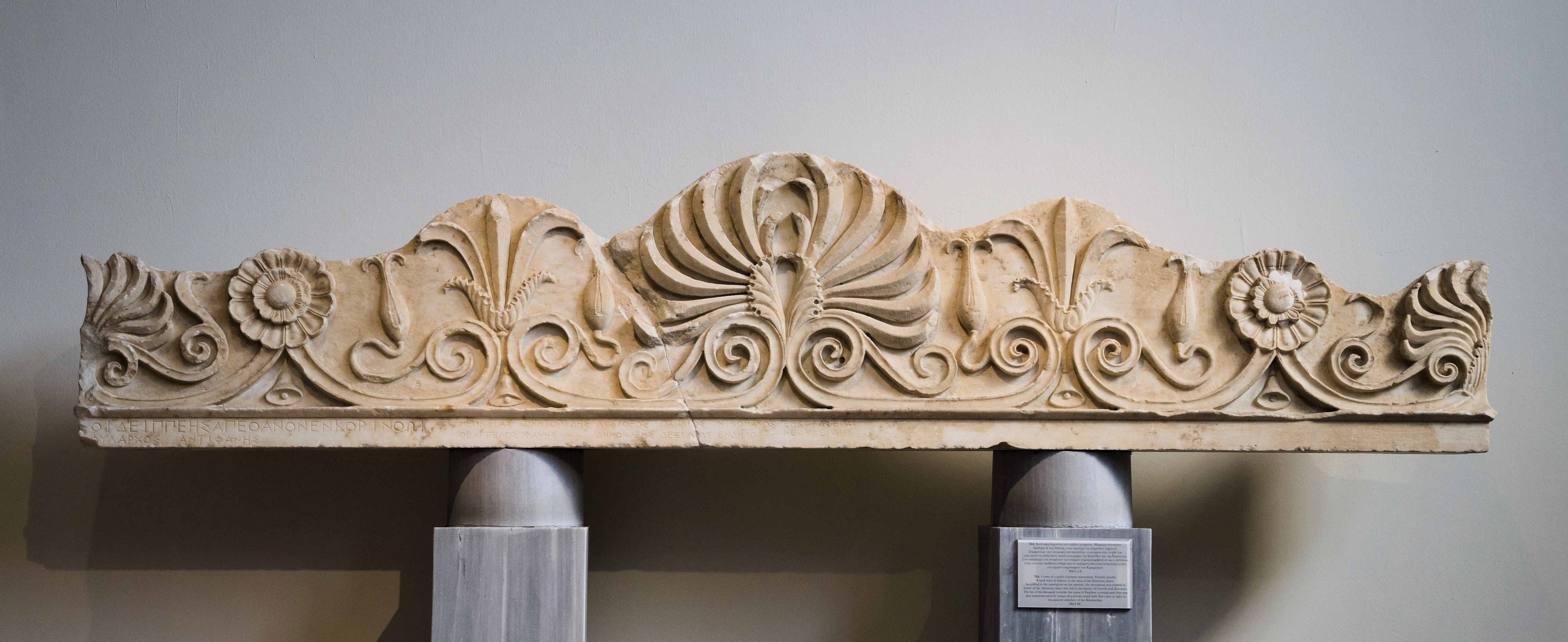 Funerary crown (NAMA 754) 2017 (detail)